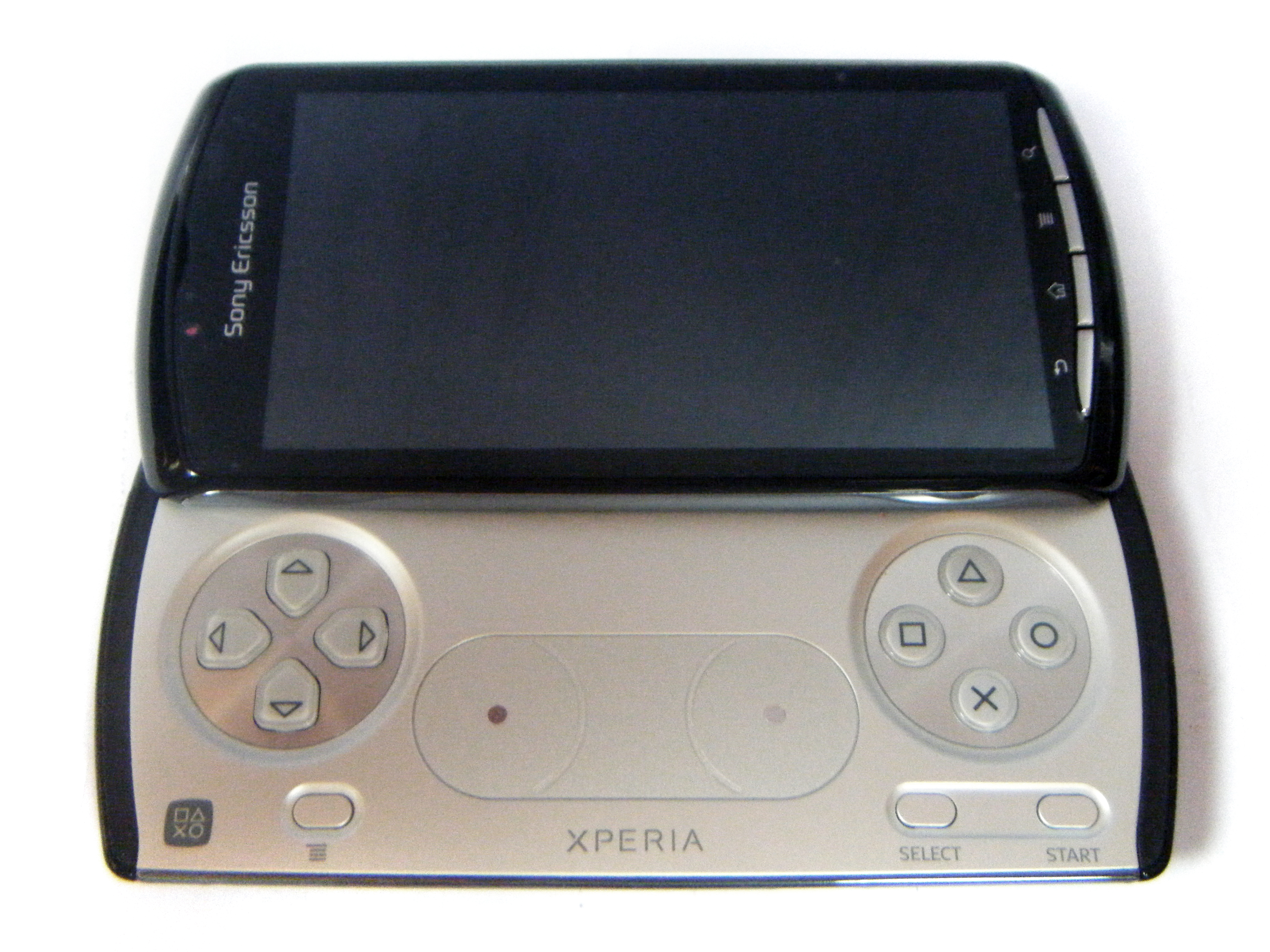 The Sony Ericsson Xperia Play gaming smartphone in the open position, showing the gaming controls